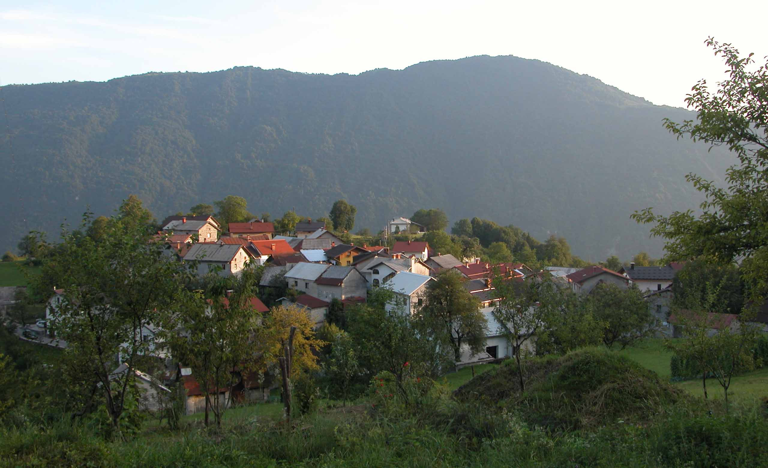 Vrsno, a village in western Slovenia, the birthplace of the poet Simon Gregorčič. In the background, the Kolovrat ridge. Photo:Ziga 09:27, 16 April 2007 (UTC)